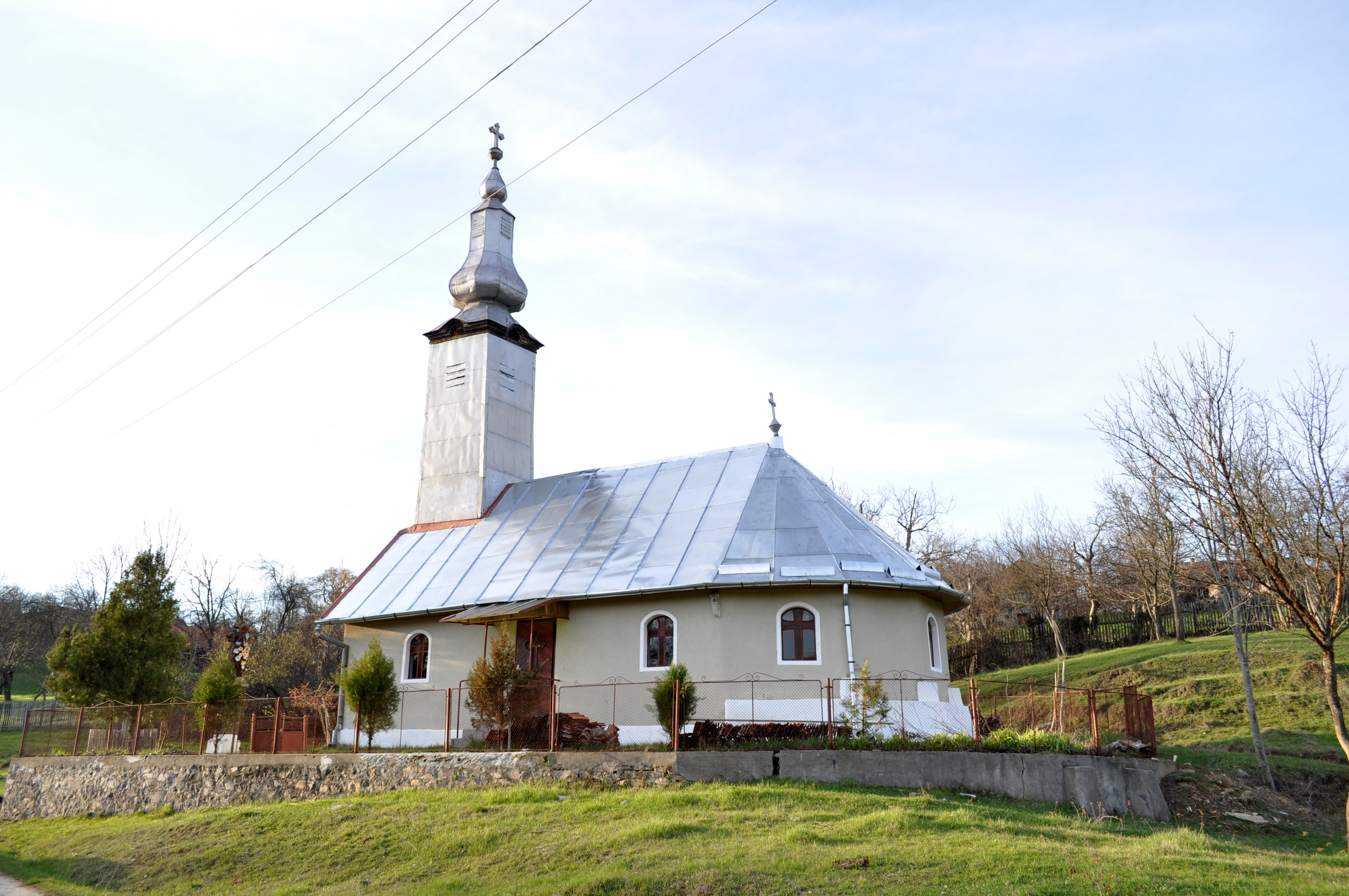 Wooden church in Valea Mare, Arad county, Romania